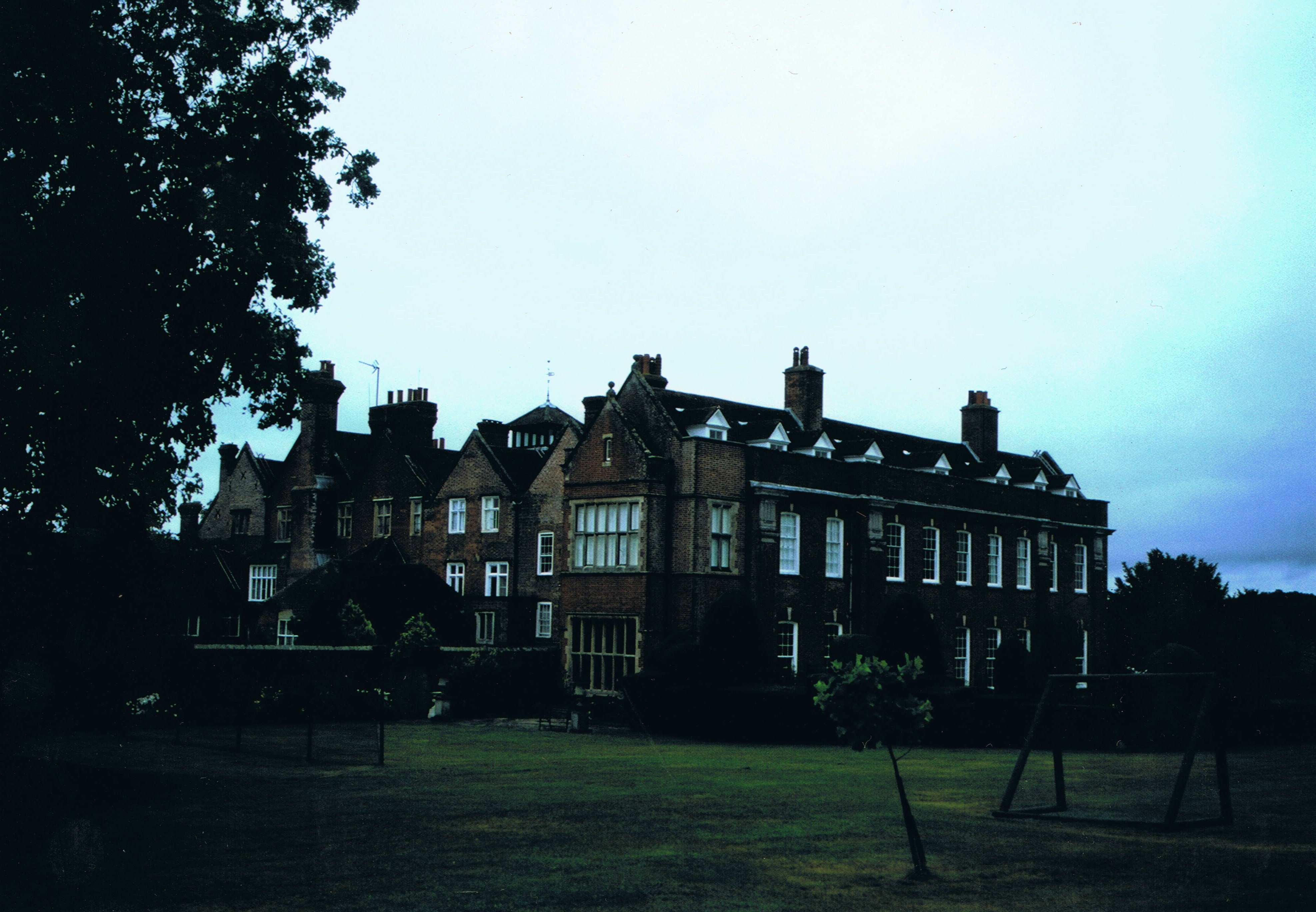 Danny's south & west fronts, (photo: R. de Salis), July 2007.Rodolph 10:07, 25 October 2007 (UTC)